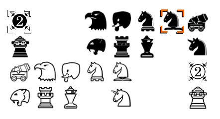 The first Phase of Musketeer Chess: Selecting the additional pieces